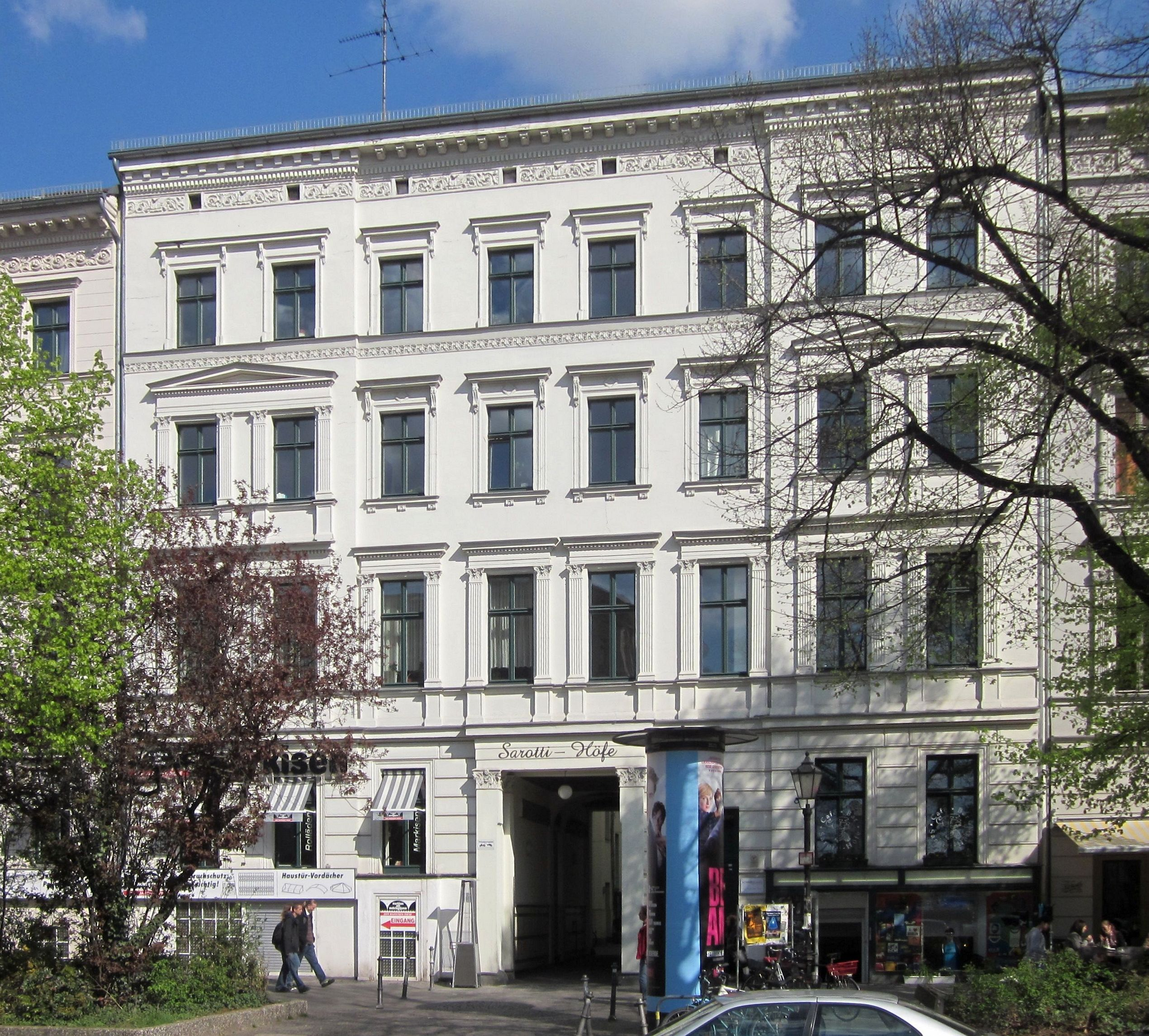 Residential building Mehringdamm No. 55 (Belle-Alliance-Straße 82 until 1946/1947) in Kreuzberg, Berlin. The house with a small factory court in the rear part of the lot was built in 1862 by Friedrich Liebert and C. Hoepke After 1903, the factory buildings were used by the newly founded Sarotti Chocolate and Cacao Industry AG. Although the company also used buildings at adjacent Mehringdamm No. 53 (Belle-Alliance-Straße 83 until 1946/1947) and Mehringdamm No. 57 (Belle-Alliance-Straße 81 until 1946/1947) , the premises soon turned out to be too small for the prospering company. Thus in 1913, Sarotti moved to Tempelhof, now a part of Berlin. The house Mehringdamm No. 55 and the former factory buildings are part of the protected historic buildings area Quartier Riehmers Hofgarten.